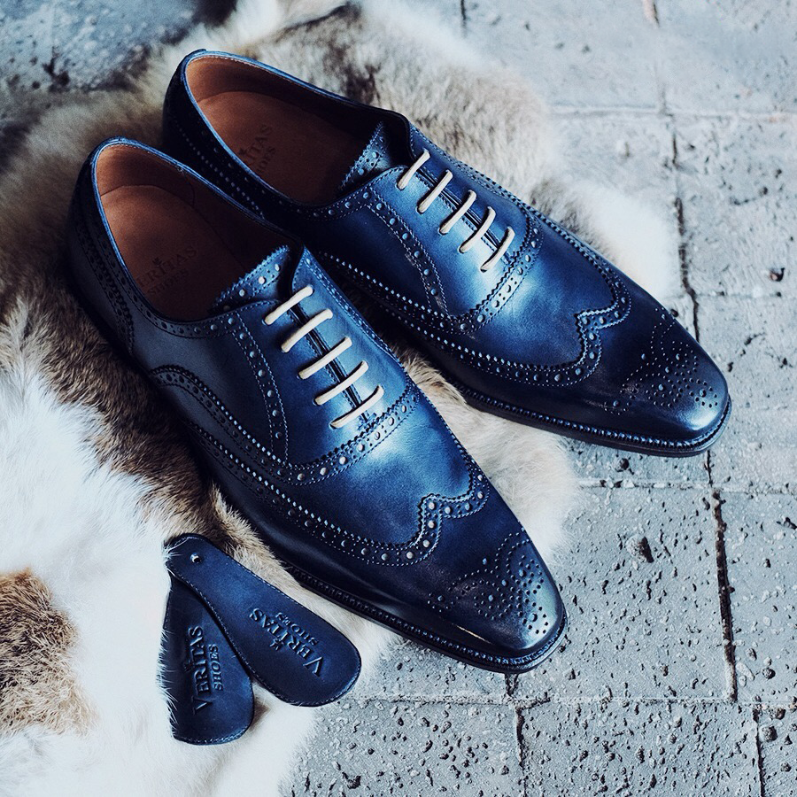 The Finest Handmade Bespoke Shoes from Canada